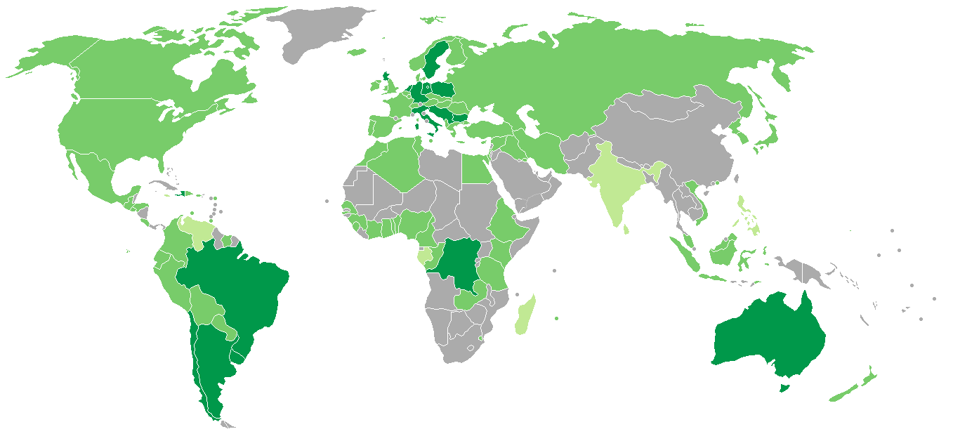 Qualification for the 1970 FIFA World Cup Country didn't participate Country withdrawed or entry didn't accepted by FIFA Country participated in the qualification tournament Country qualified to the finals